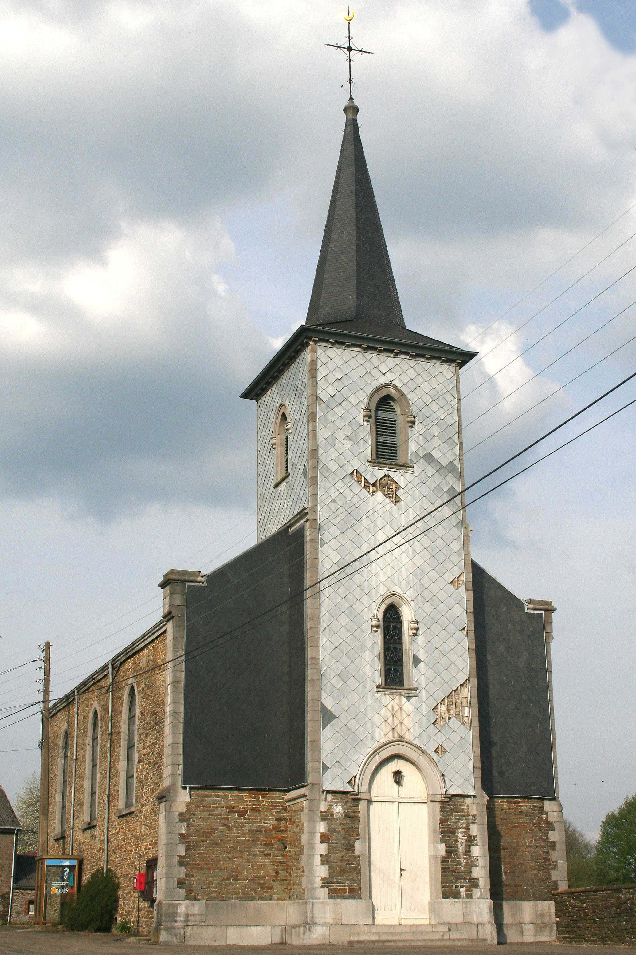 Vivy, Bouillon, Belgium: Saint Nicholas' Church (1863).